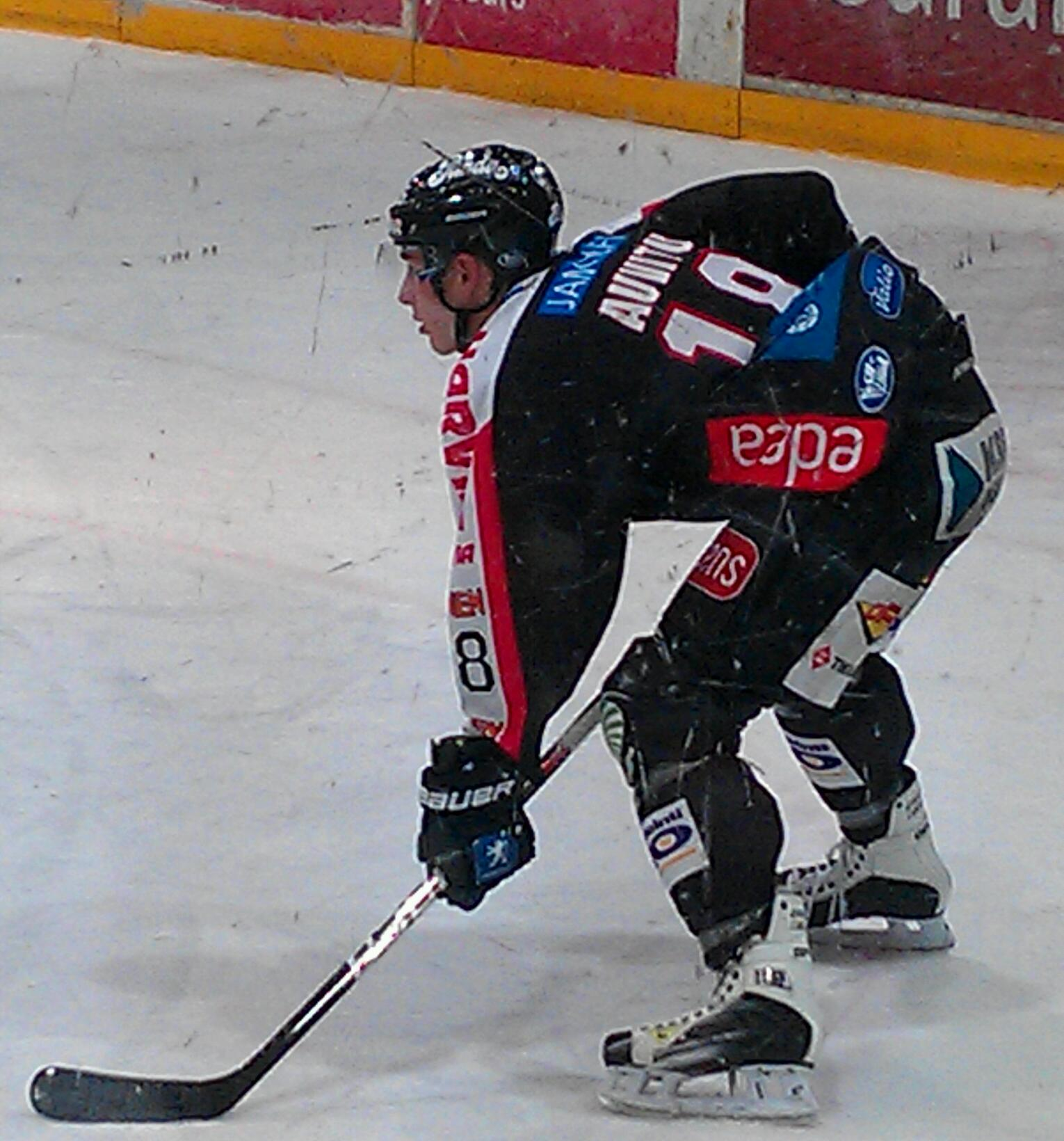 Yohann Auvitu playing for JYP Jyväskylä against SaiPa